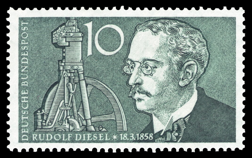 100th day of birth of Rudolf Diesel (1858-1913)